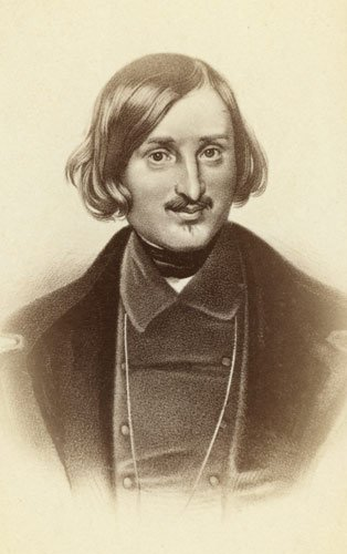 Nikolai Gogol.